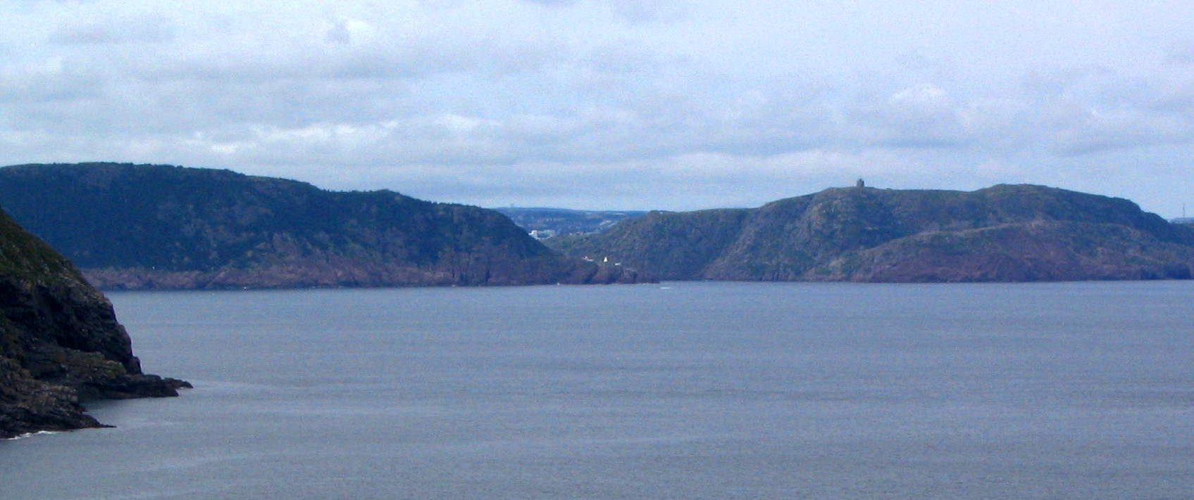 Port entrance of St. John's, seen from Cape Spear